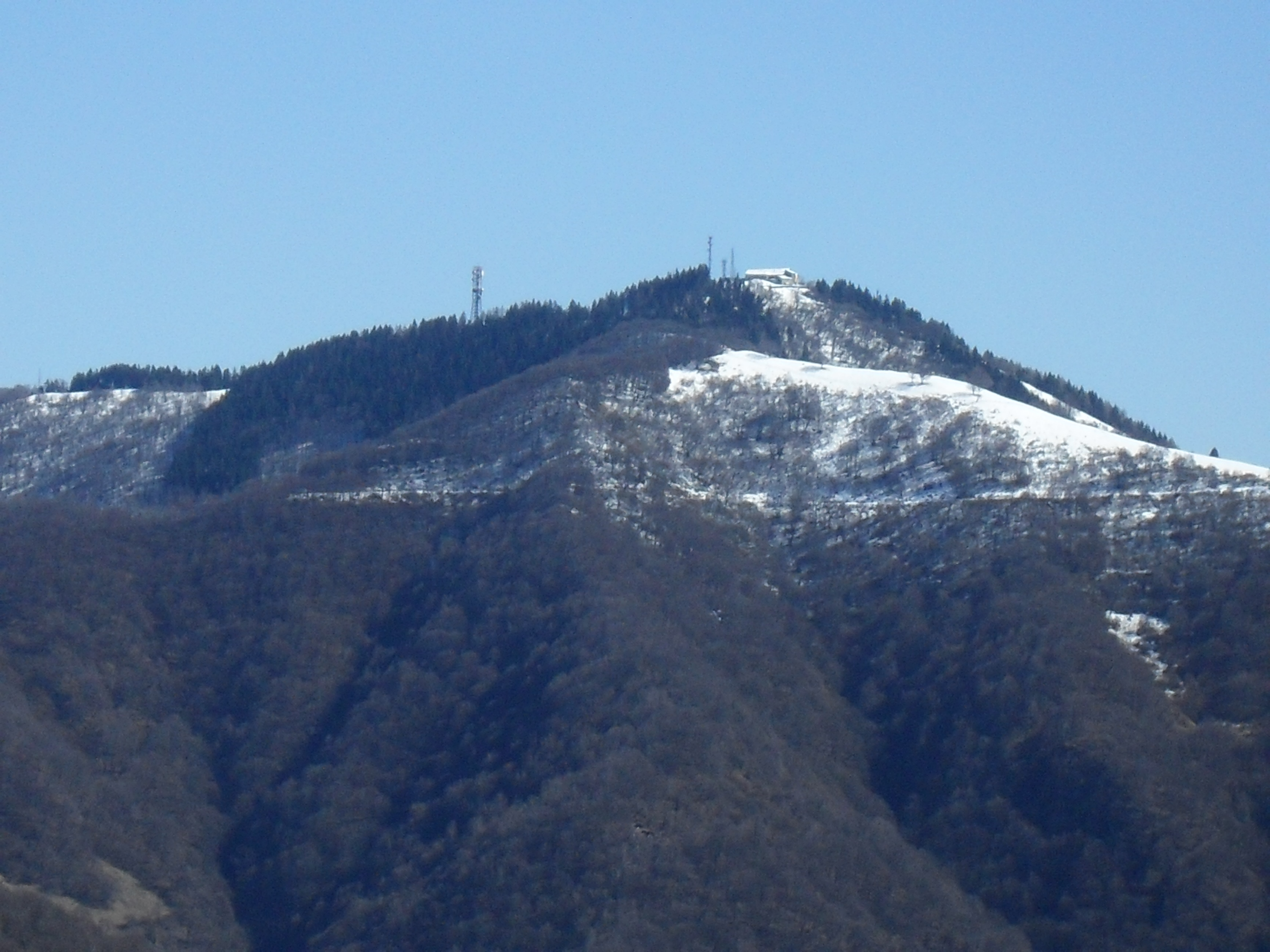 Mount Bisbino in the Prealps, Italy, as seen from Switzerland